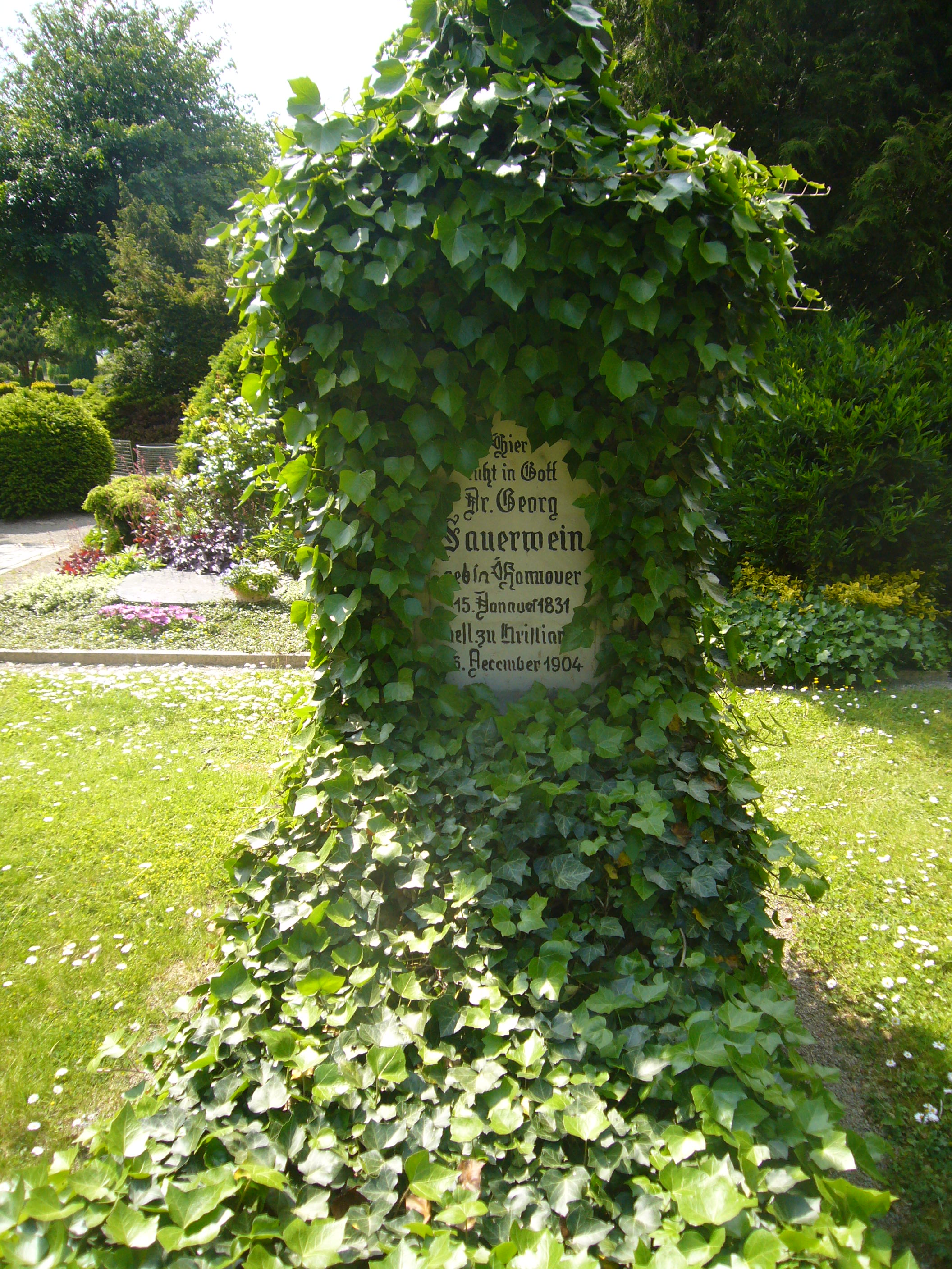 Tombstone of Georg Sauerwein at Lehder Friedhof in Gronau, Lower Saxony